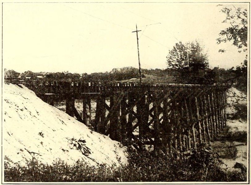 Trestle of the Evansville and Eastern Electric Railway over a ravine near Yankeetown